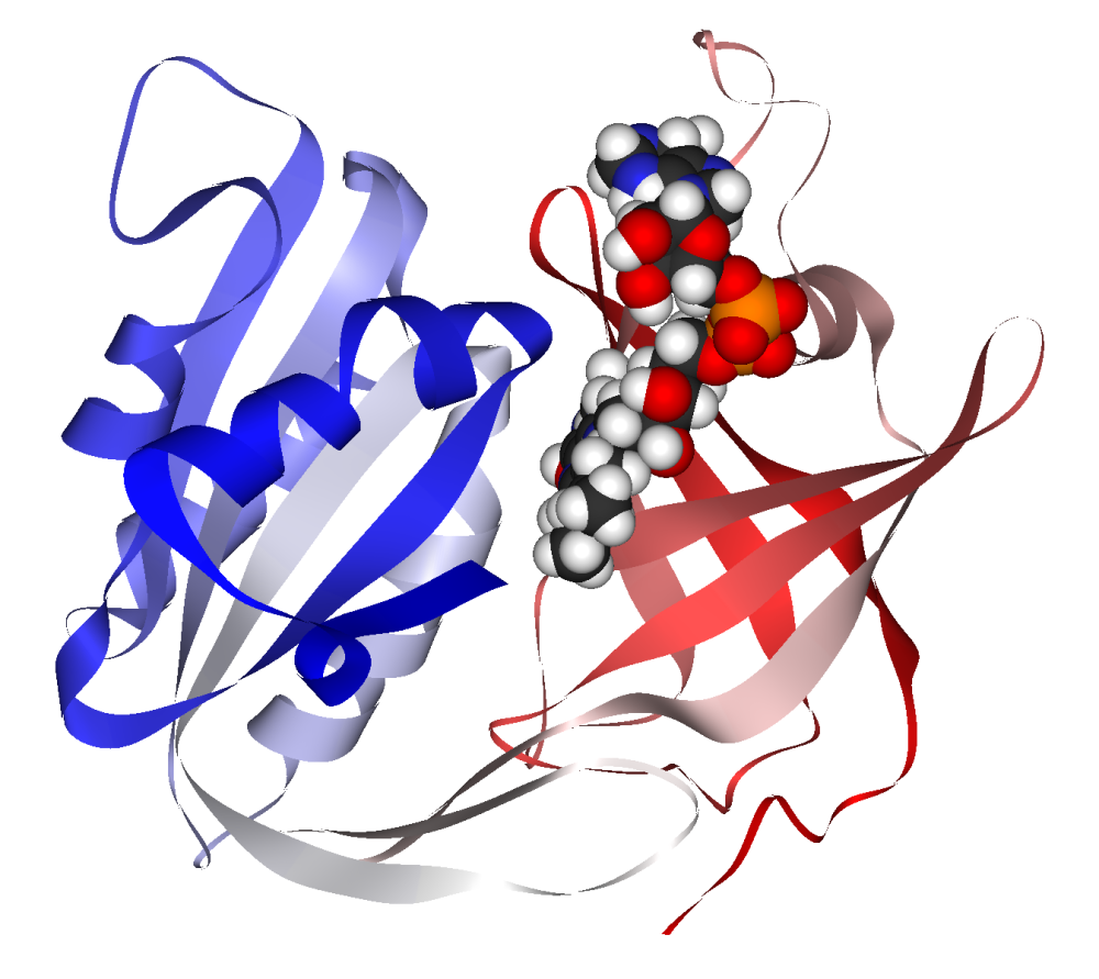 Ribbon diagram of human erythrocytic NADH cytochrome-b5 reductase (methemoglobin reductase), with FAD bound.Created using Accelrys DS Visualizer Pro 1.6 and GIMP.